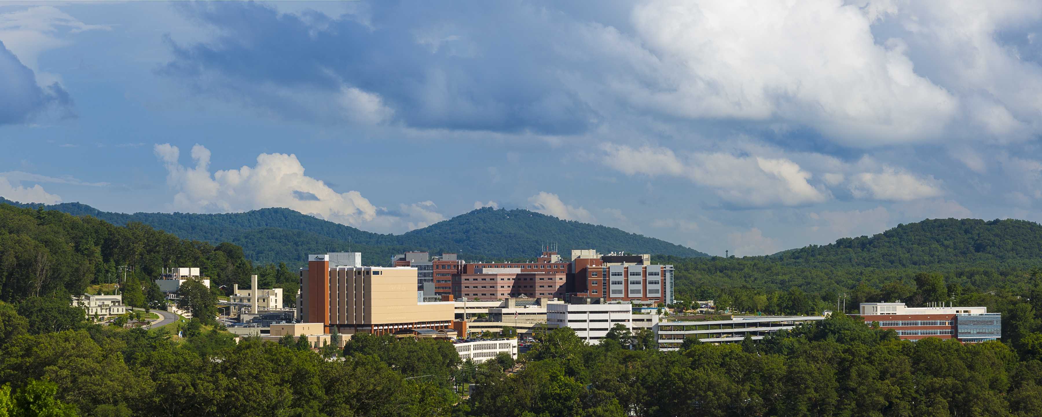 Mission Health campus, located in Asheville, NC.